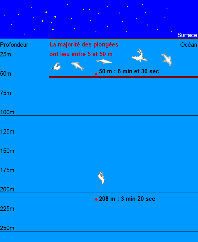 This diagram depicts the distribution of the dives of the females in the subantarctic fur seal (Arctocephalus tropicalis) during the night. The females hunt and dive only during the night. This diagram drew his inspiration from the article of Georges, J.Y., Tremblay, Y., Guinet, C. Seasonal diving behaviour in lactating subantarctic fur seals on Amsterdam Island. Polar Biology, 23, 59-69, 2000. The majority of the dives used to happen between 5 and 50 meters depth, this area has been demarcated by two horizontal red lines. The deepest dive has reached 208 meters for a duration of 3 minutes and 20 seconds, the longest dive has lasted 6 minutes and 30 seconds for a depth of 50 meters. Theses extremes dives has been depicted by two red dots. The night has been symbolized by the drawing of stars in the sky. This diagram has been made under Open Office Calc software, the shapes of fur seals and the stars has been added under Gimp software.